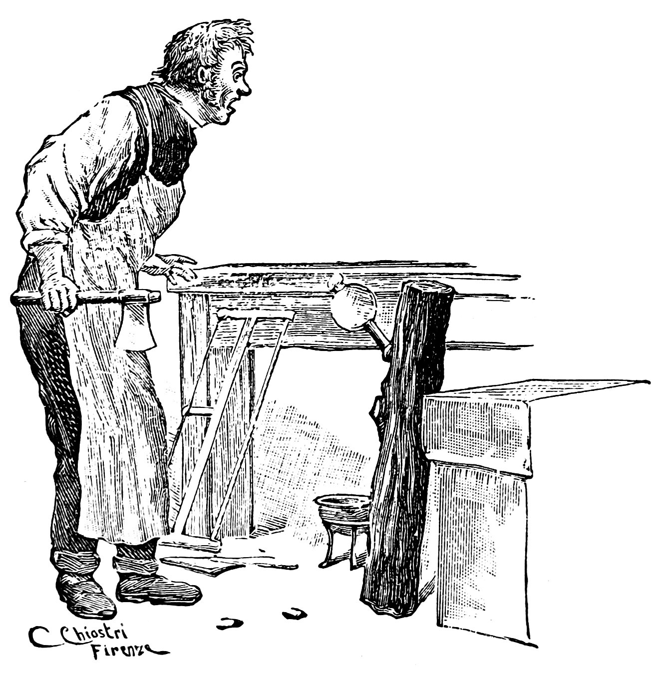 Illustration from "Le avventure di Pinocchio, storia di un burattino", Carlo Collodi, Bemporad & figlio, Firenze 1902 (Drawings and engravings by Carlo Chiostri, and A. Bongini)